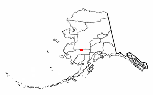 Adapted from Wikipedia's AK borough maps by Seth Ilys.